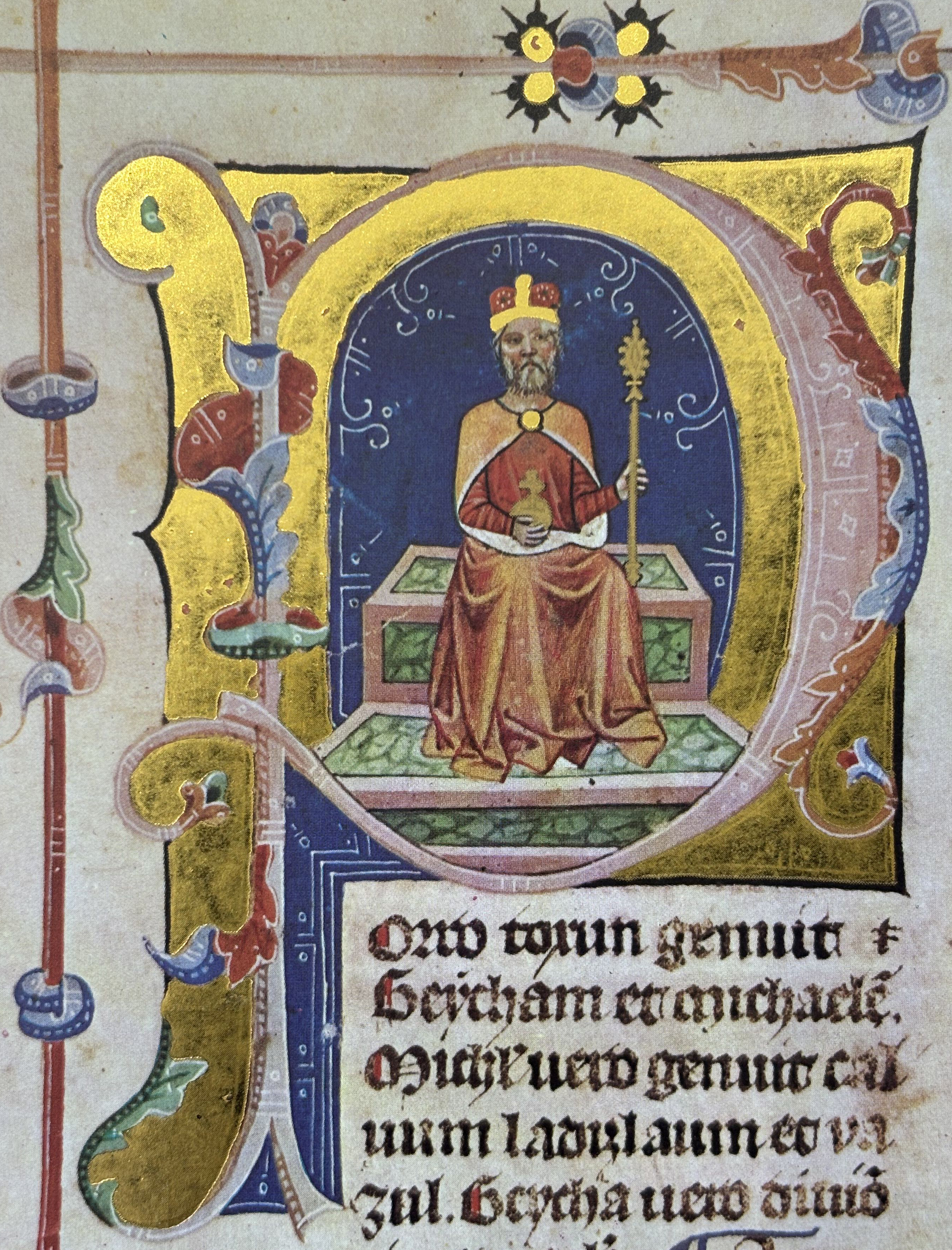 Miniature of Geza, father of St. Istvan